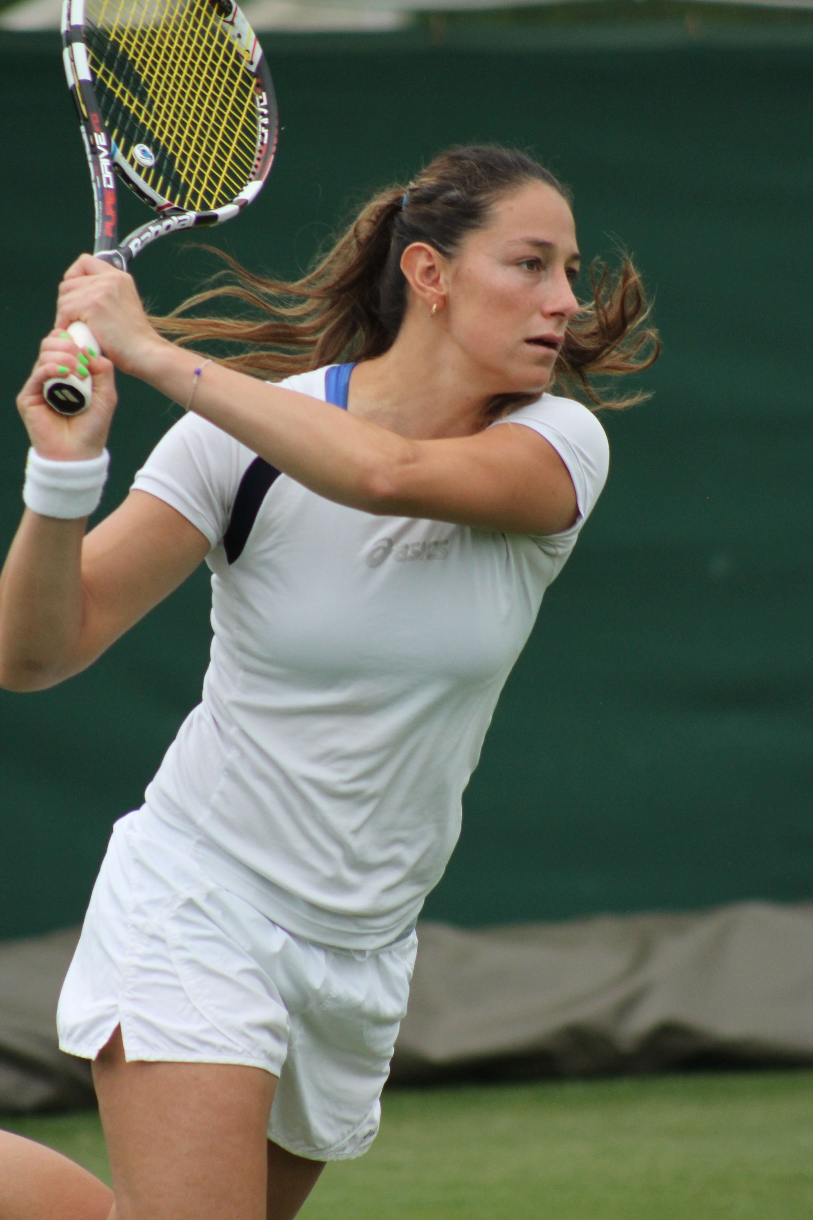 Mariana Duque Mariño, 2013 Wimbledon Qualifying Tournament